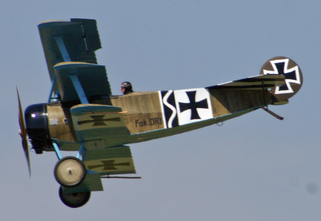 Biggin Hill Air Show